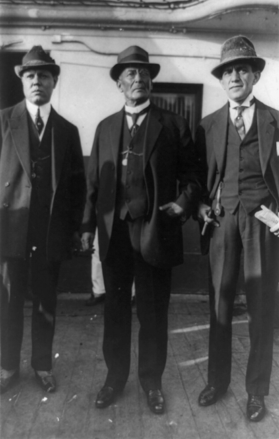 From left to right: José C. Delgado, Huerta's private secretary; Victoriano Huerta, former Mexican president and Abraham Z. Ratner, owner of the Tampico Daily News, on Huerta's arrival to New York City.